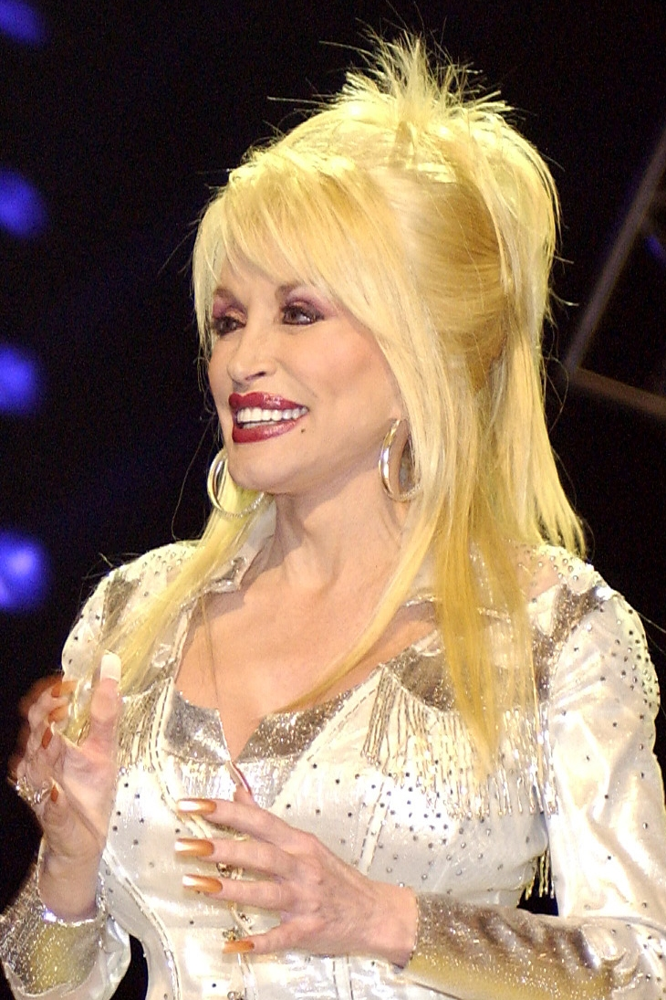 Dolly Parton at the Grand Ole Opry in Nashville.